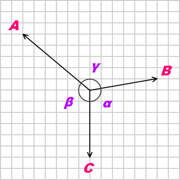 Lami's theorem